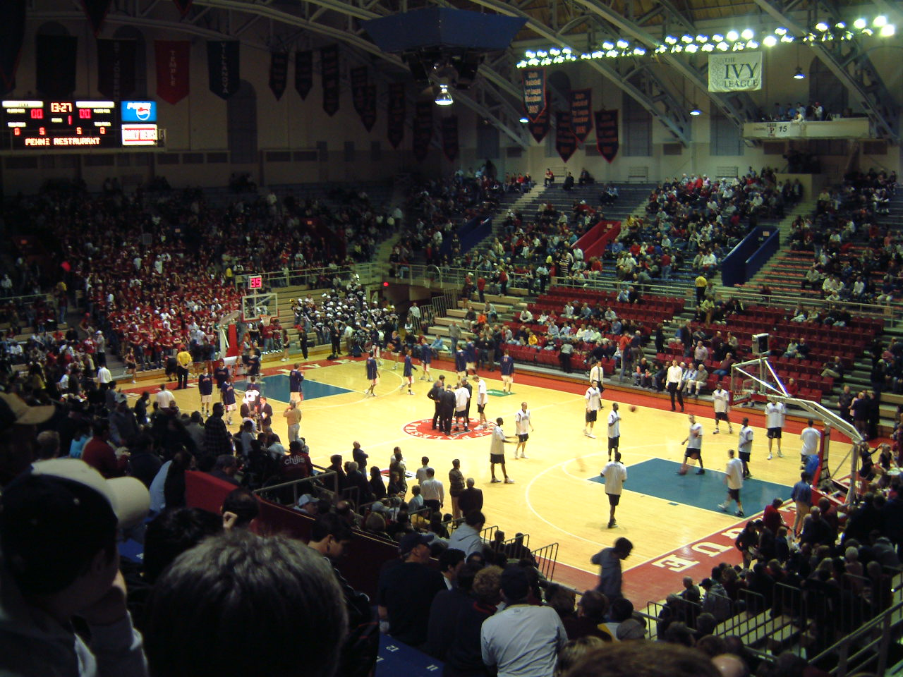 St. Joseph's versus Penn, January 28, 2006 about 30 minutes before tip-off Author of weblog licenses the blog under CC 1.0 here.